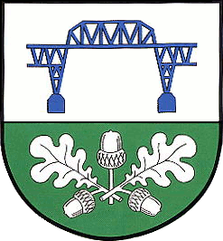 Coat of arms of the municipality Hochdonn in Schleswig-Holstein, Germany.